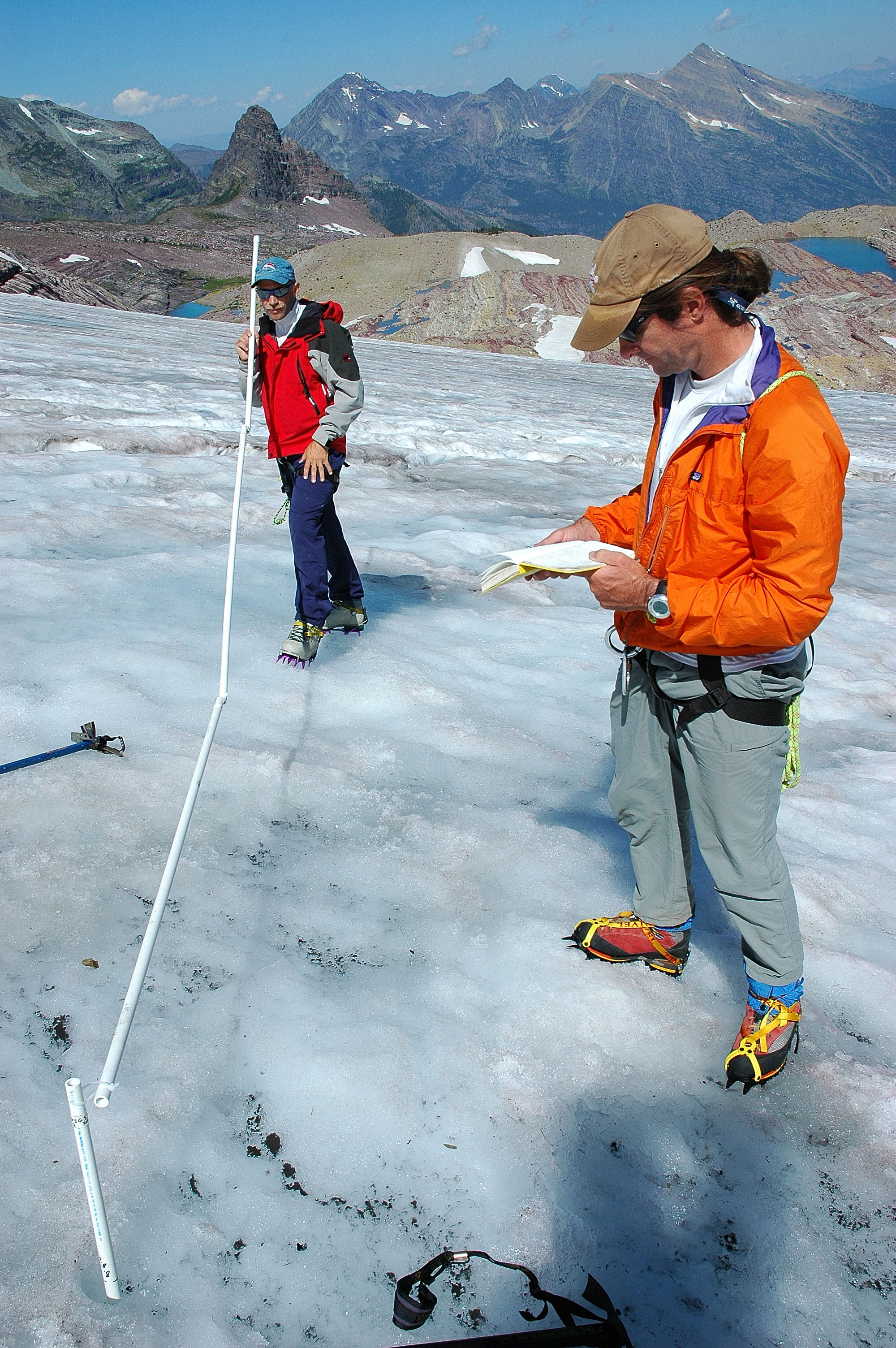 Ablation stakes are used to determine how much of the previous winter's snow has melted off of a glacier. These scientists are working on Sperry Glacier in Glacier National Park. USGS Photo.